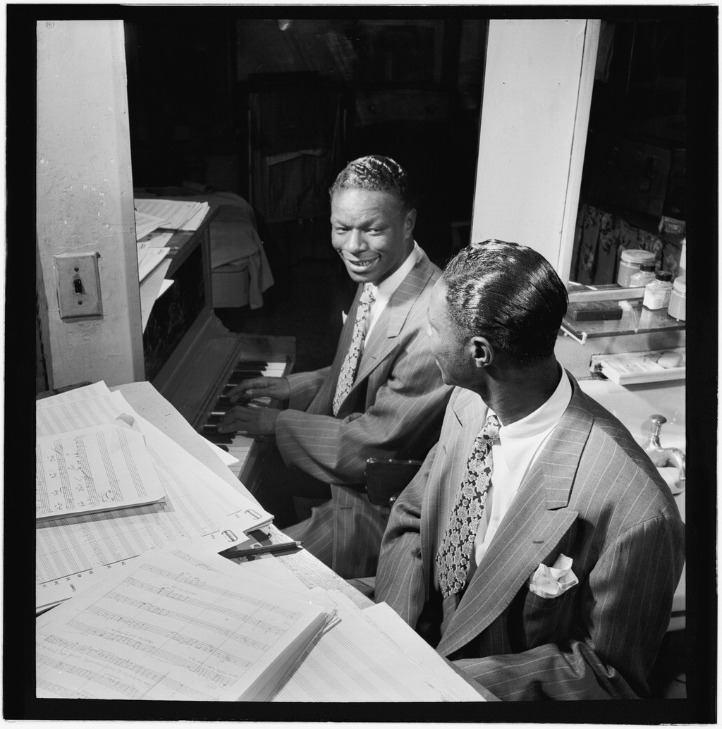 Nat King Cole, New York, N.Y., ca. June 1947 (Photograph by William P. Gottlieb)